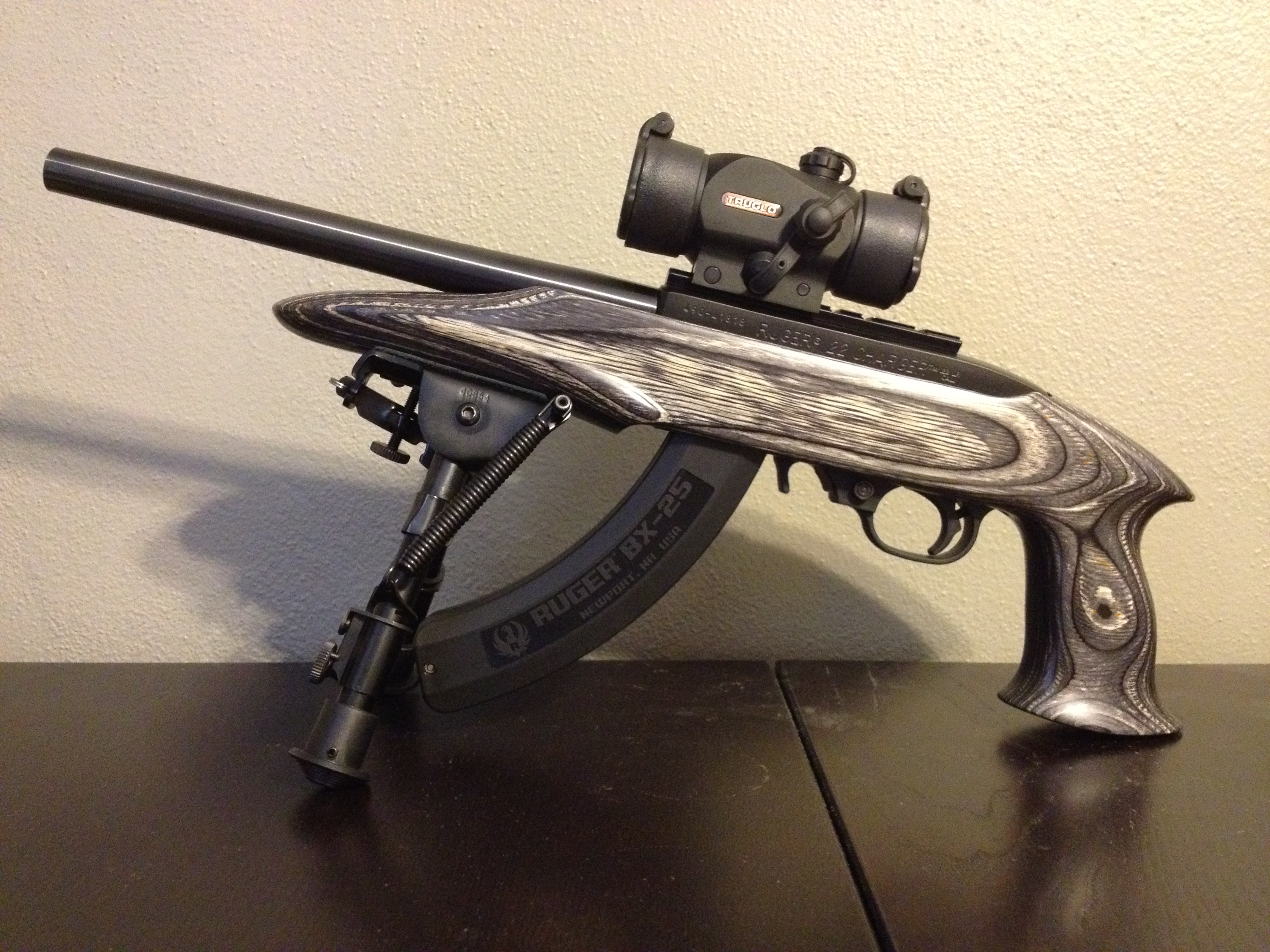 Ruger Charger (.22 caliber) with Swift pistol scope.